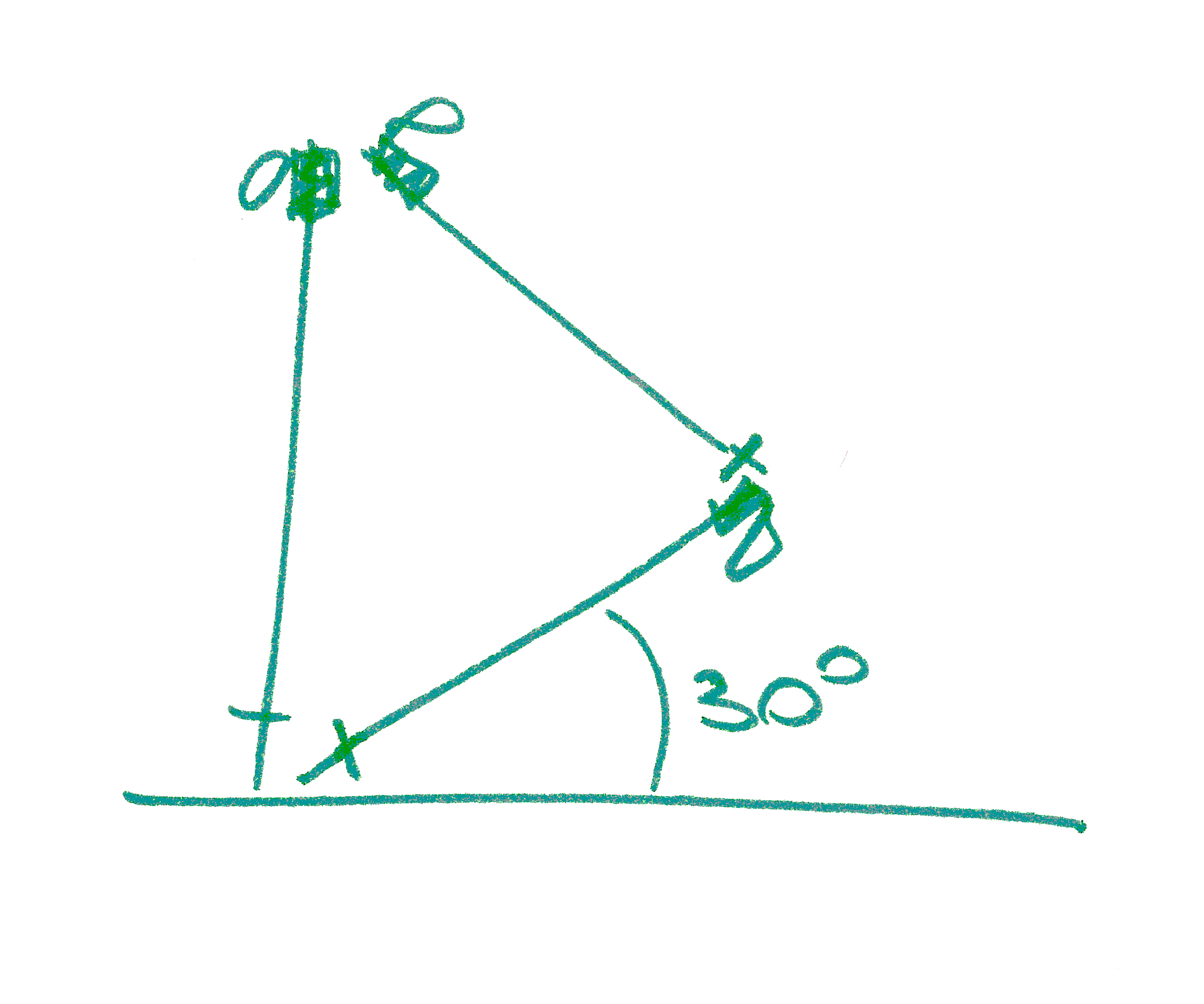 Using three equally long poles, one can form an angle of 30 degrees. This is useful e.g. to determine the avalanche risks. Nearly all avalanches develop on slopes with more than 30 degrees.